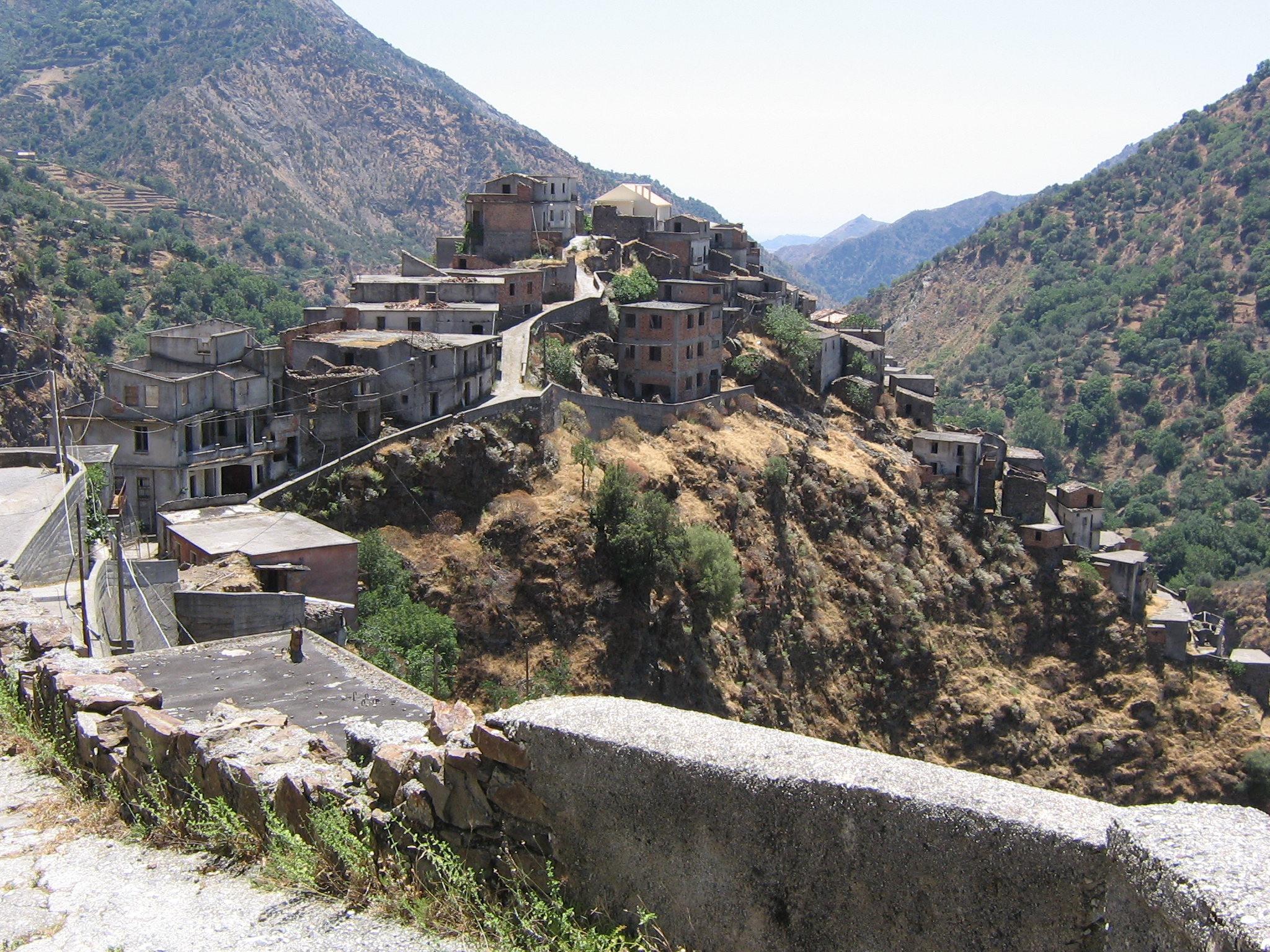 Roghudi Vecchio